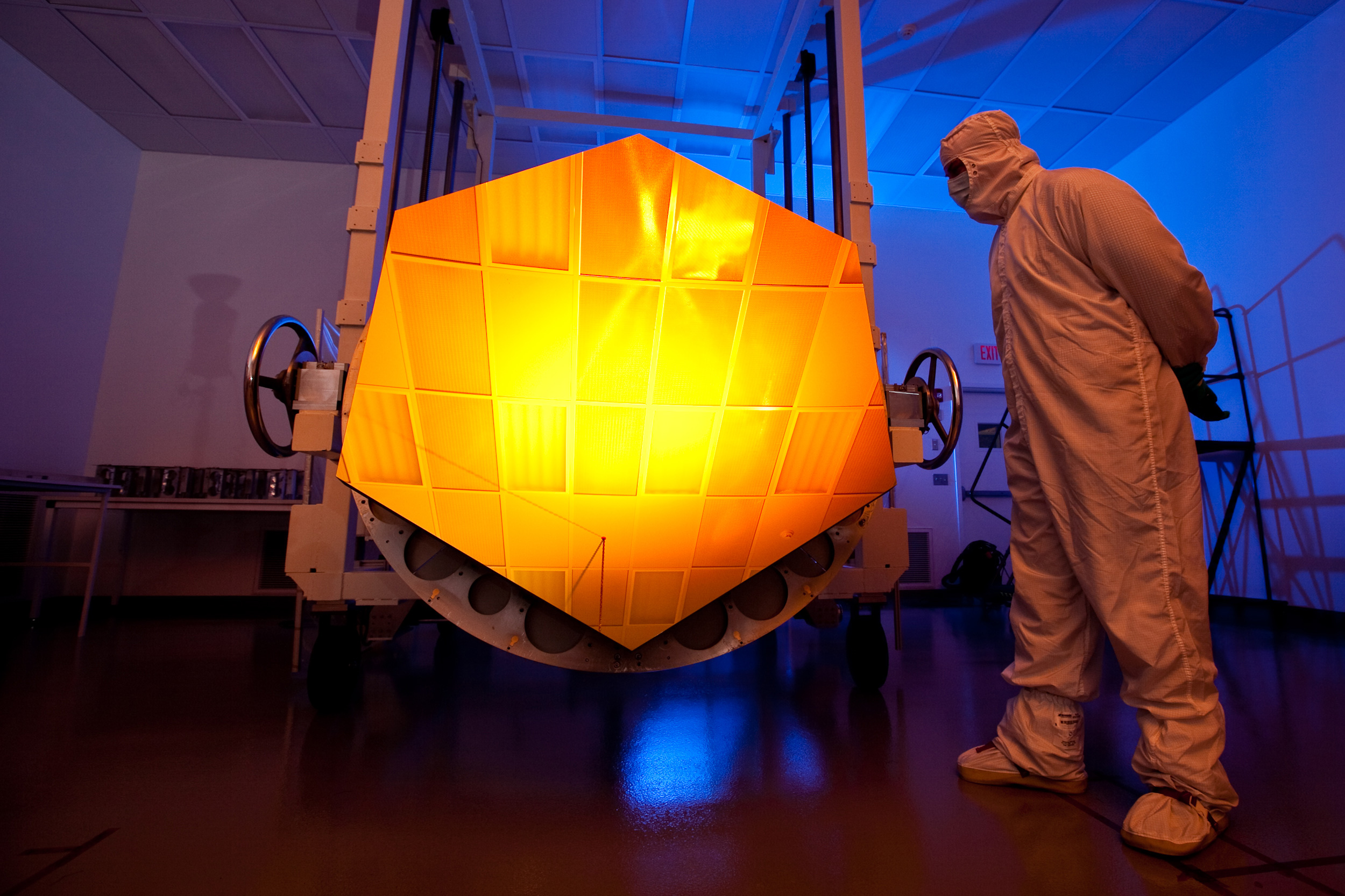 The James Webb Space Telescope's Engineering Design Unit (EDU) primary mirror segment, coated with gold.